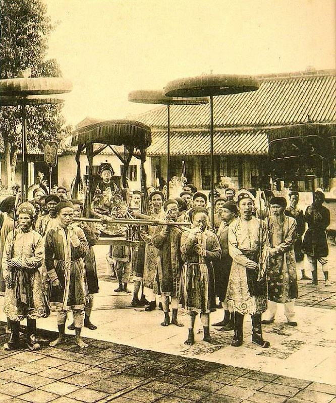 中文（香港）: 1907: The child Emperor Duy Tan on a palanquin.